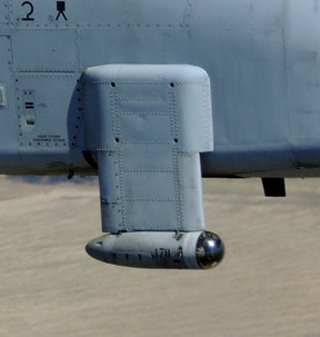 Detail of Pave Penny pod from MOODY AIR FORCE BASE, Ga. -- Three A-10C Thunderbolt II Aircraft from the 74th and 75th Fighter Squadron fly in formation during a training session here March 16. Theses aircrafts fly in several different formations and also shot flairs during their training. (U.S. Air Force photo by Airman 1st Class Benjamin Wiseman)